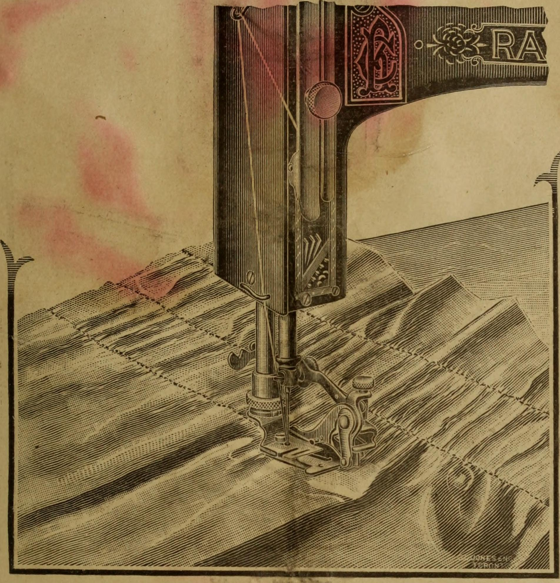 Title: Instructions for using the new improved Raymond family sewing machines and attachments Year: 1902 (1900s) Authors: Raymond Manufacturing Company of Guelph Subjects: Sewing Sewing machines Publisher: Guelph, Ont. : Raymond Manufacturing Company of Guelph Text Appearing Before Image: thethumb screw on the end of the lever. If full gathers are required,turn the adjusting screw to the left, or to the right for finegathers; for the latter it is always better to have a short stitch.Oil the wearing points of the rui&r before using. Ruffling- Between Bands, (as for making aprons).—Place the lower band under the ruffler, having the right side of thegoods up, place the apron into the ruffler gauge, then place thetop band over or on top of the ruffler gauge, and under the rufflerfoot. This operation will blind stitch the band on each side ofthe apron. THE NEW IMPROVED RAYMOND 19 Text Appearing After Image: The Ruffler Shirring. Remove the lower or separator plate from the ruffler, andattach the ruffler to the presser bar as already instructed. Toattach the shirring plate, remove the slide over the shuttle andput the shirring plate in its place, then place the cloth betweenthe ruffling blade and the shirring plate, lower the presser barand operate as in ruffling. Ruffling and Sewing in Piping.—Place the goods forthe ruffle into the ruffler the sambas for plain ruffling, then insertthe piping into the gauge nearest the ruffle gauge, drawing itthrough under the foot, insert the folded edge of the band intothe gauge nearest the needle, drawing it also under the foot. The Ruffler Puffing.—Cut the goods as wide as the puffis wanted, allowing for seams, and ruffle each edge alternately,same as in ruffling. 20 INSTRUCTIONS FOR USING